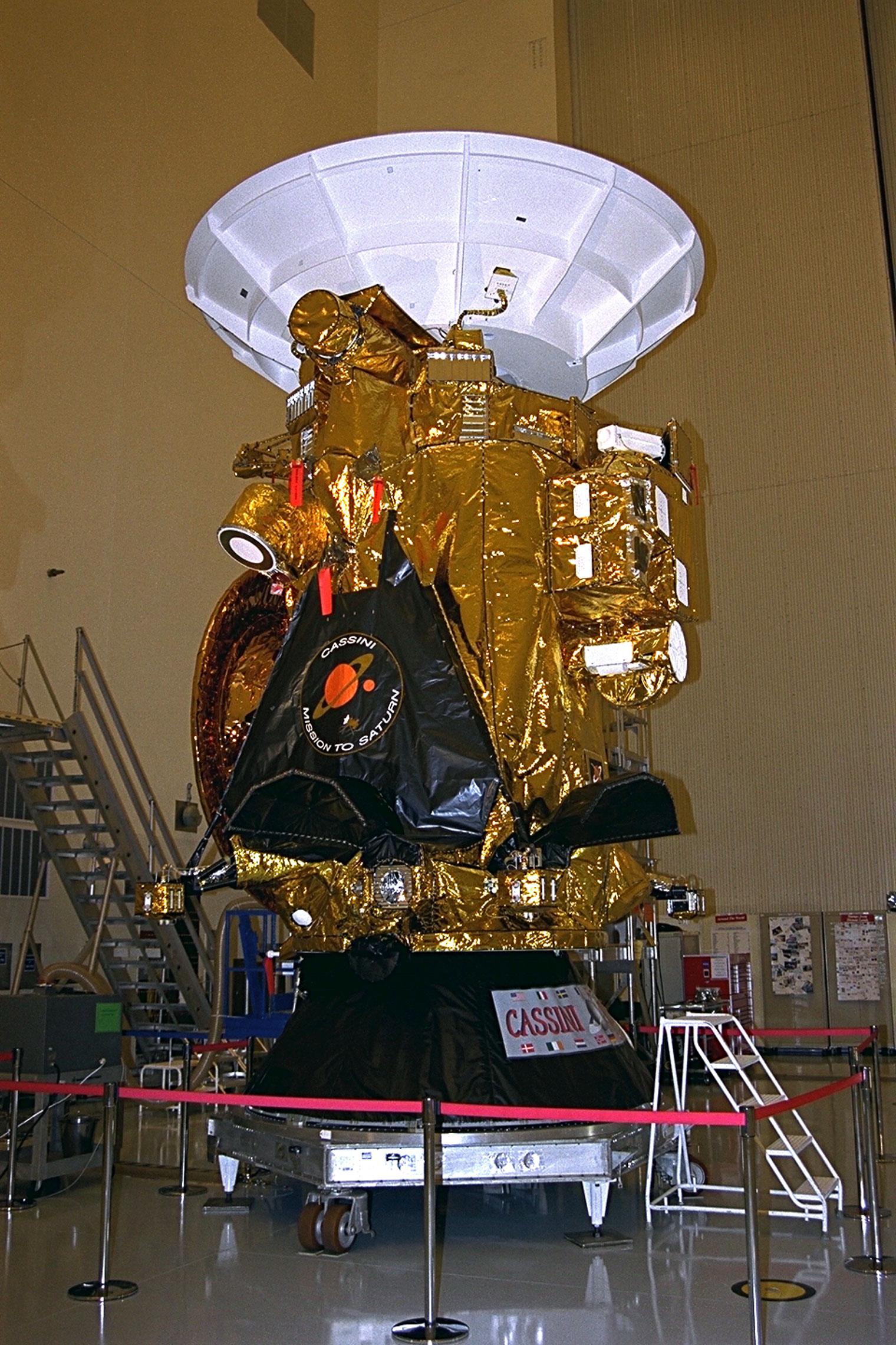 The Cassini spacecraft sits on display for the media in the Payload Hazardous Servicing Facility at the Kennedy Space Center in August 1997.